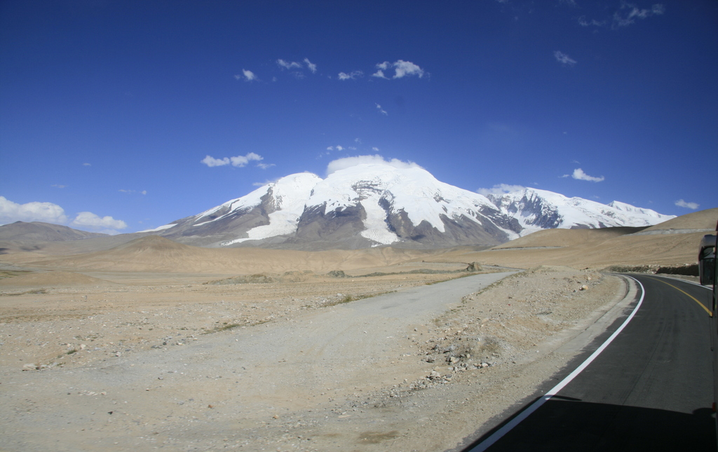 China Xinjiang Karakoram Highway